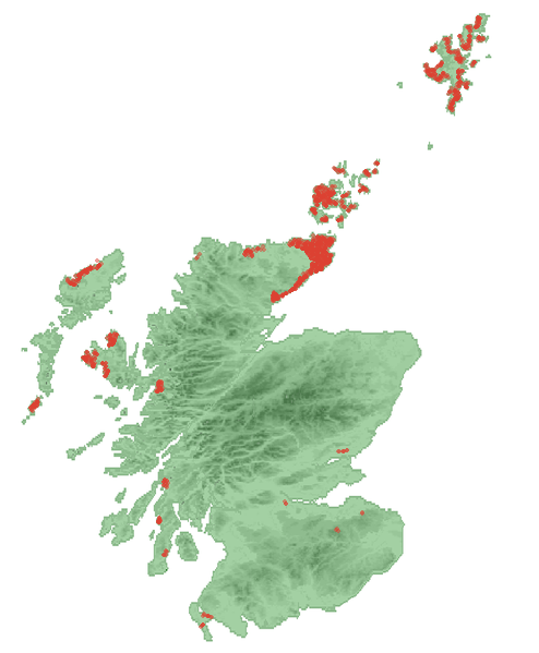 Approximate locations of the brochs in Scotland